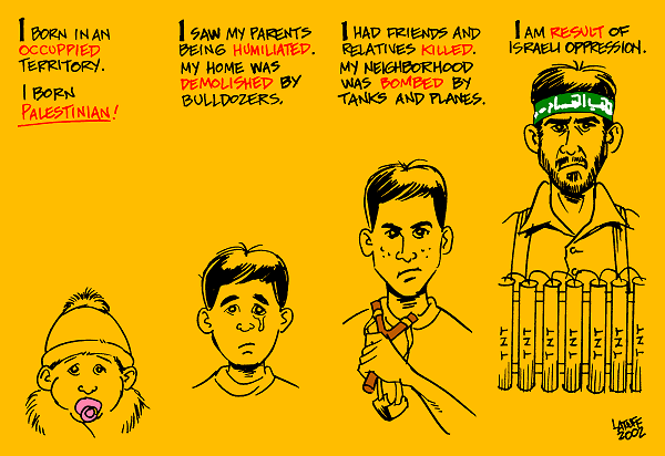 "It's easy to make a bomb man"